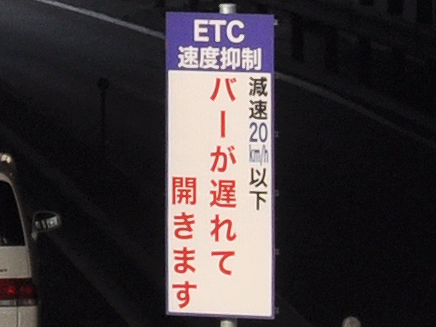 Sign that warns against cars with excess speed more than 20 km/h through ETC gates in Japan. Photographed in Yokohama, Japan.